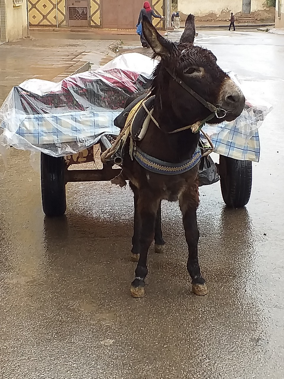 This is an image with the theme "Africa on the Move or Transport" from: Morocco